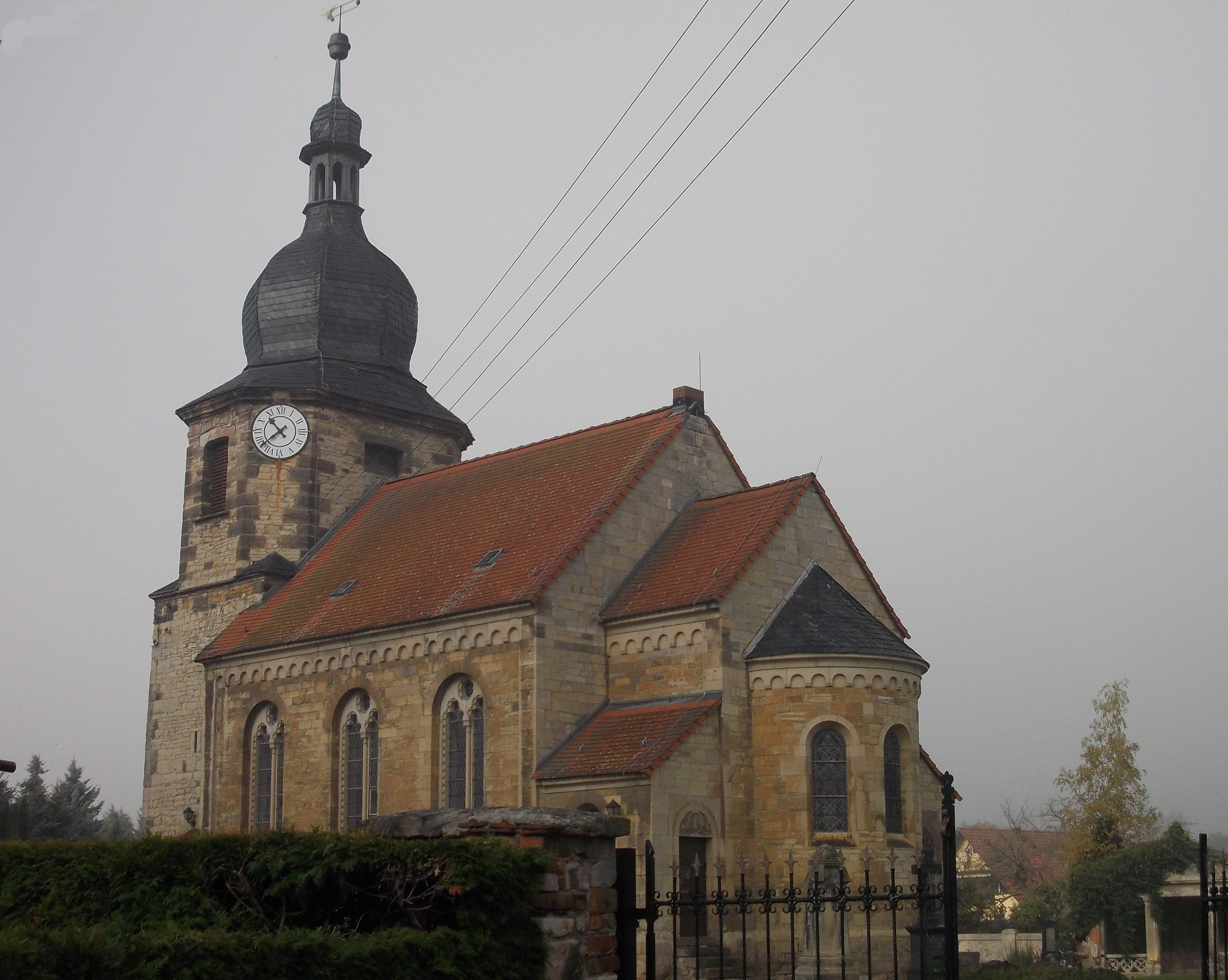 St. Pancratius' Church in Dornstedt (Teutschenthal, district: Saalekreis, Saxony-Anhalt)